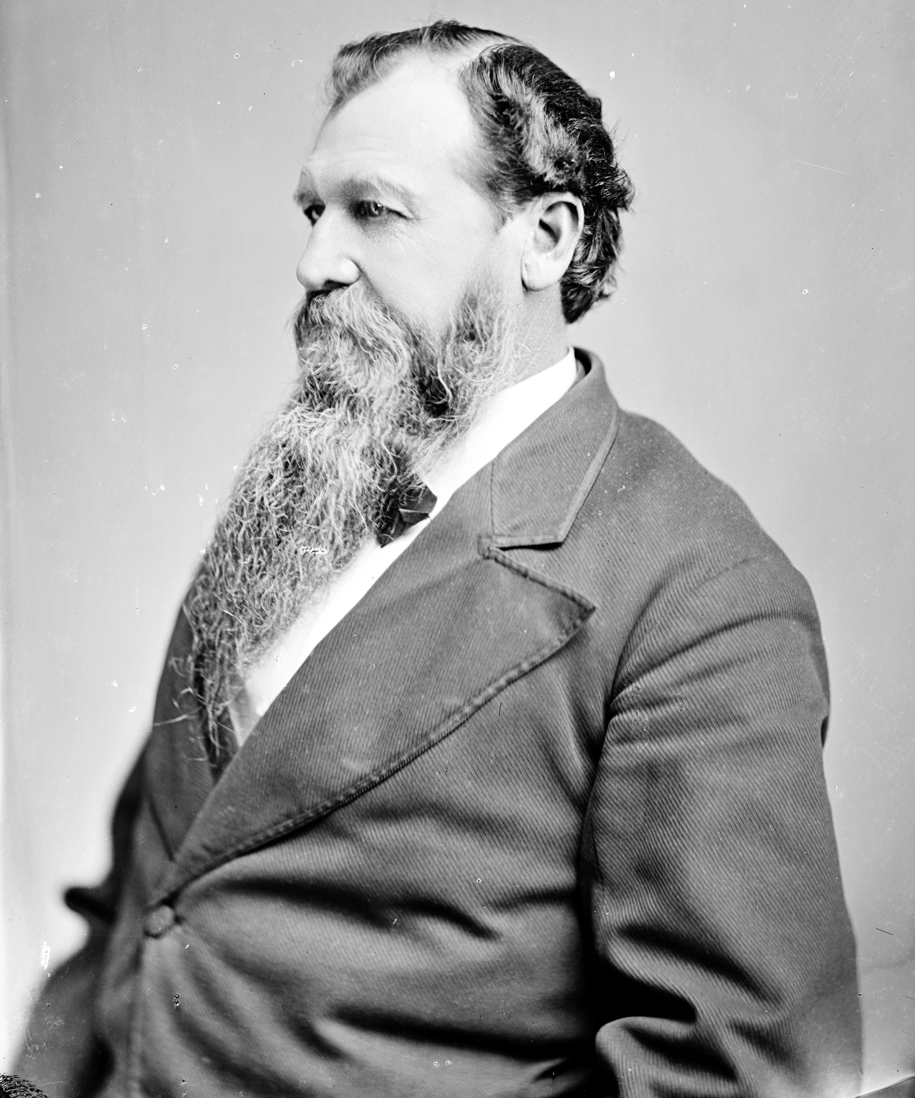 Philip Cook, General in the Army of the Confederate States and US Representative from Georgia, Library of Congress